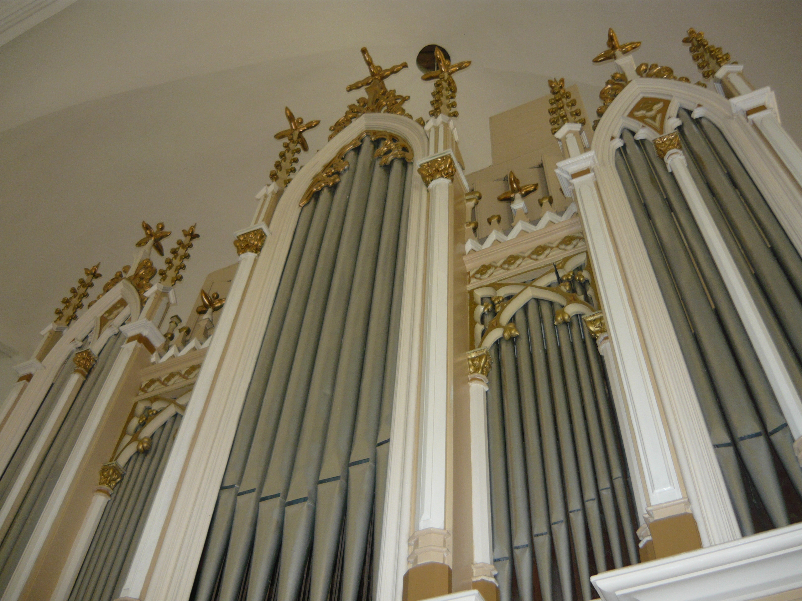 Беларуская (тарашкевіца): Казіміраўскі касьцёл. в. Ліпнішкі This is a photo of Belarusian heritage monument. Reference number: 413Г000301 ( WLM)